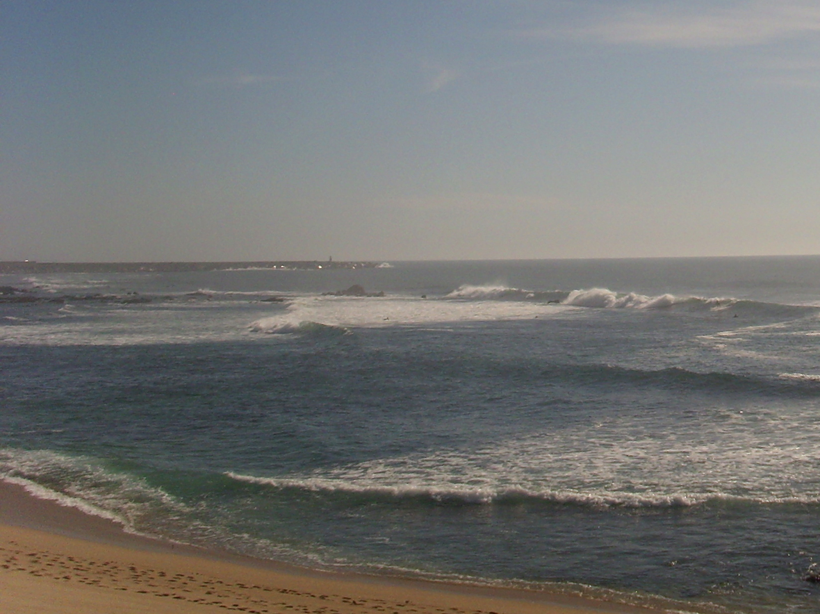 Salgueira Beach waves during low tide, left surf, in Póvoa de Varzim, Portugal